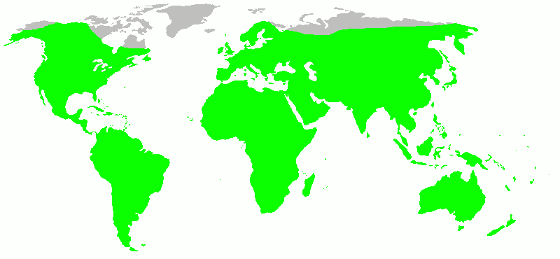 La distribucion de rattus rattus